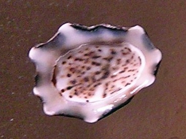 Patelloida latistrigata G. F. Angas, 1865; a limpet from the family Lottiidae; Southern Australia